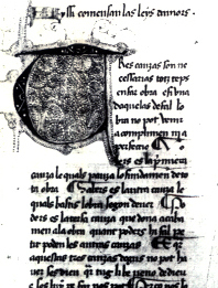 Manuscript from San Cugat, no. 13, in the Arxiu de la Corona d'Aragó.